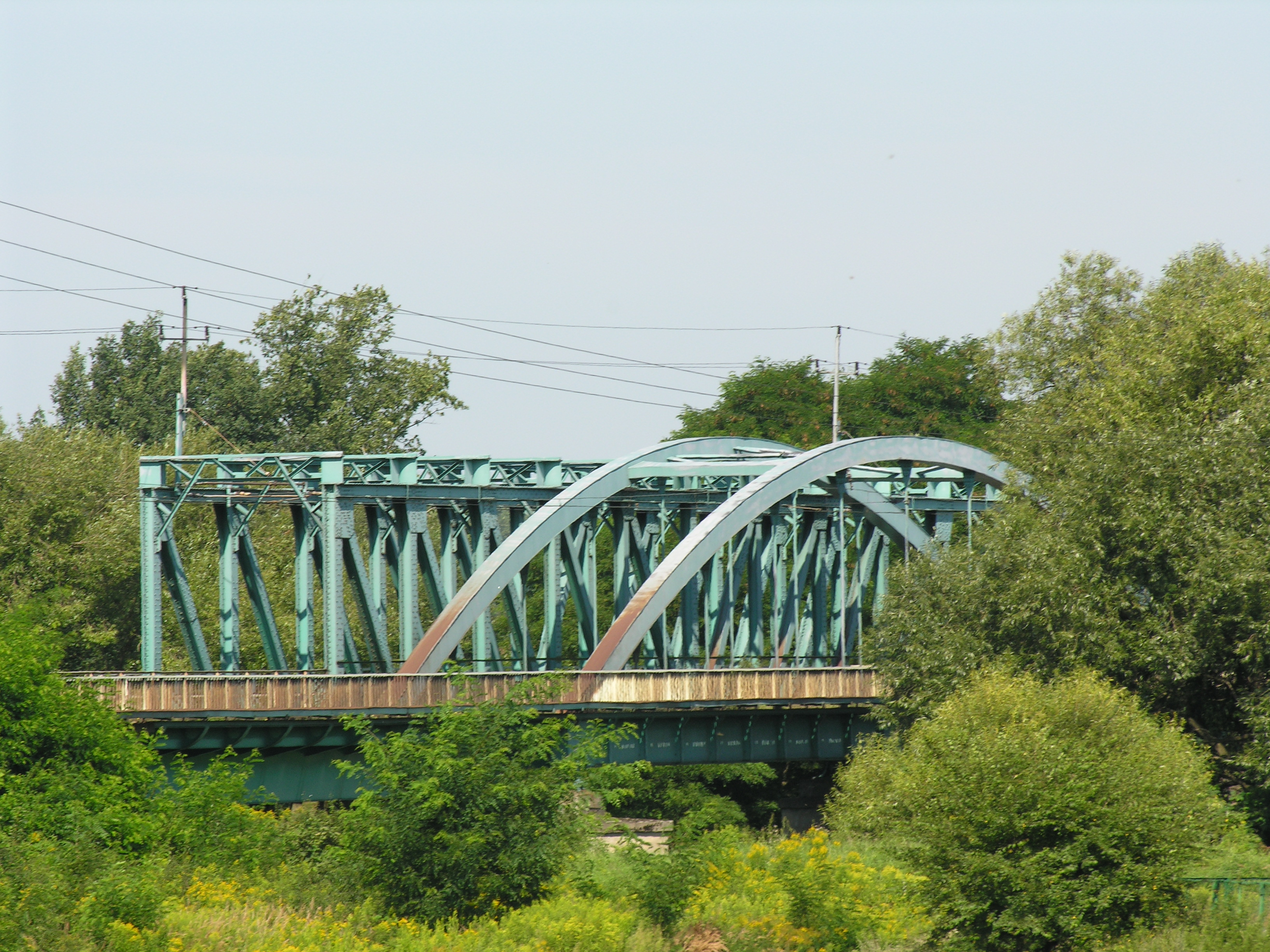 Czarnowąsy